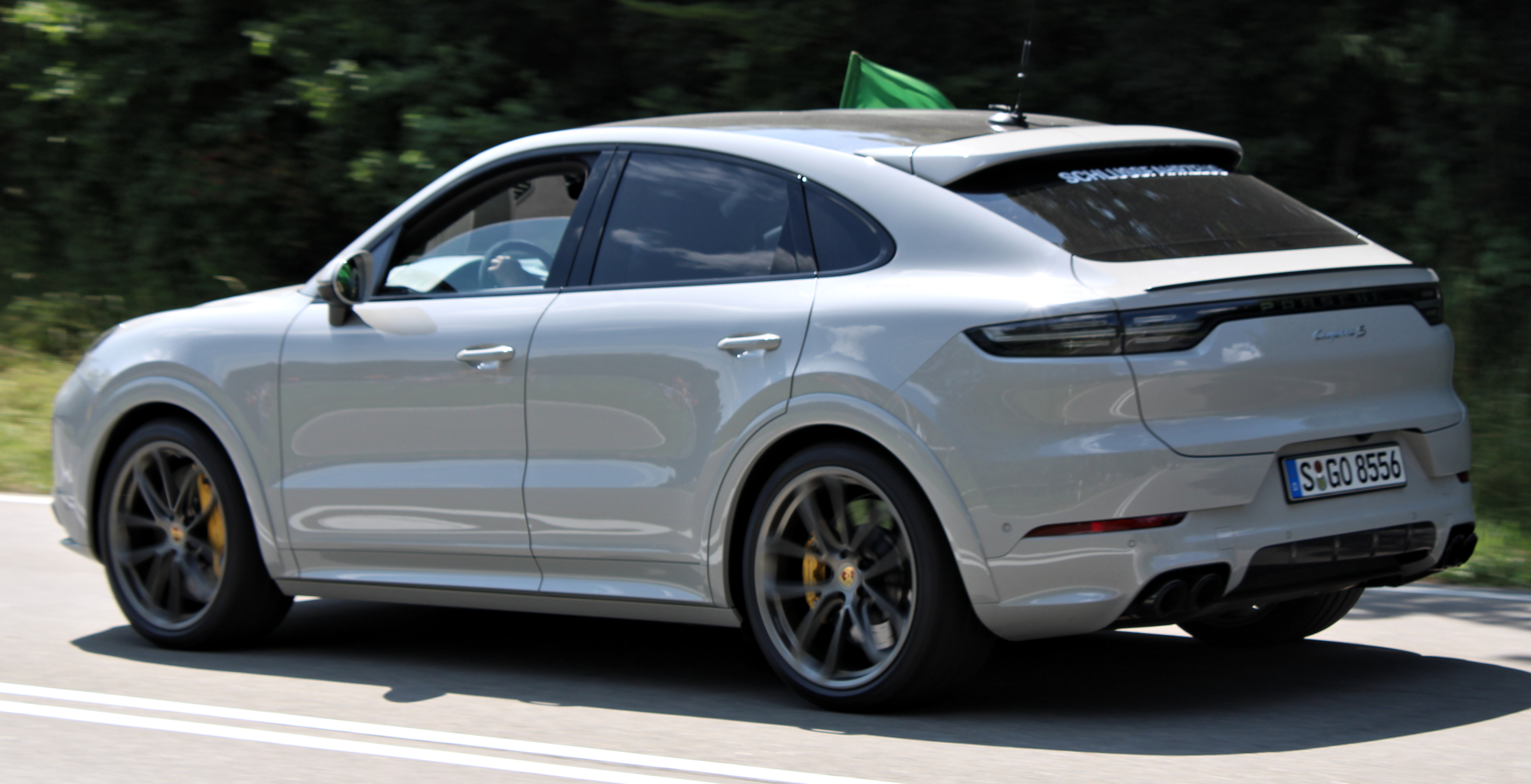 Porsche Cayenne Coupé S at Solitude Revival 2019